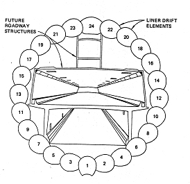 Cross section Stacked Drift Mt Baker Tunnel, I-90, Seattle, WA